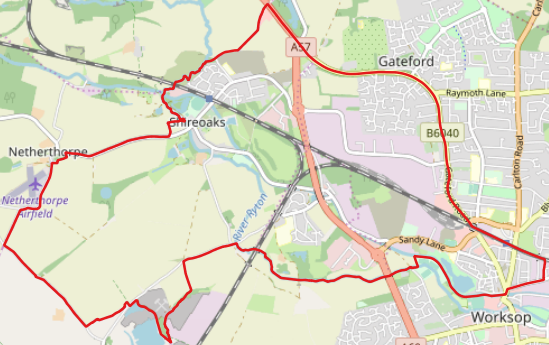 Map of the Worksop North West ward of Bassetlaw. This map may be incomplete, and may contain errors. Don't rely solely on it for navigation.